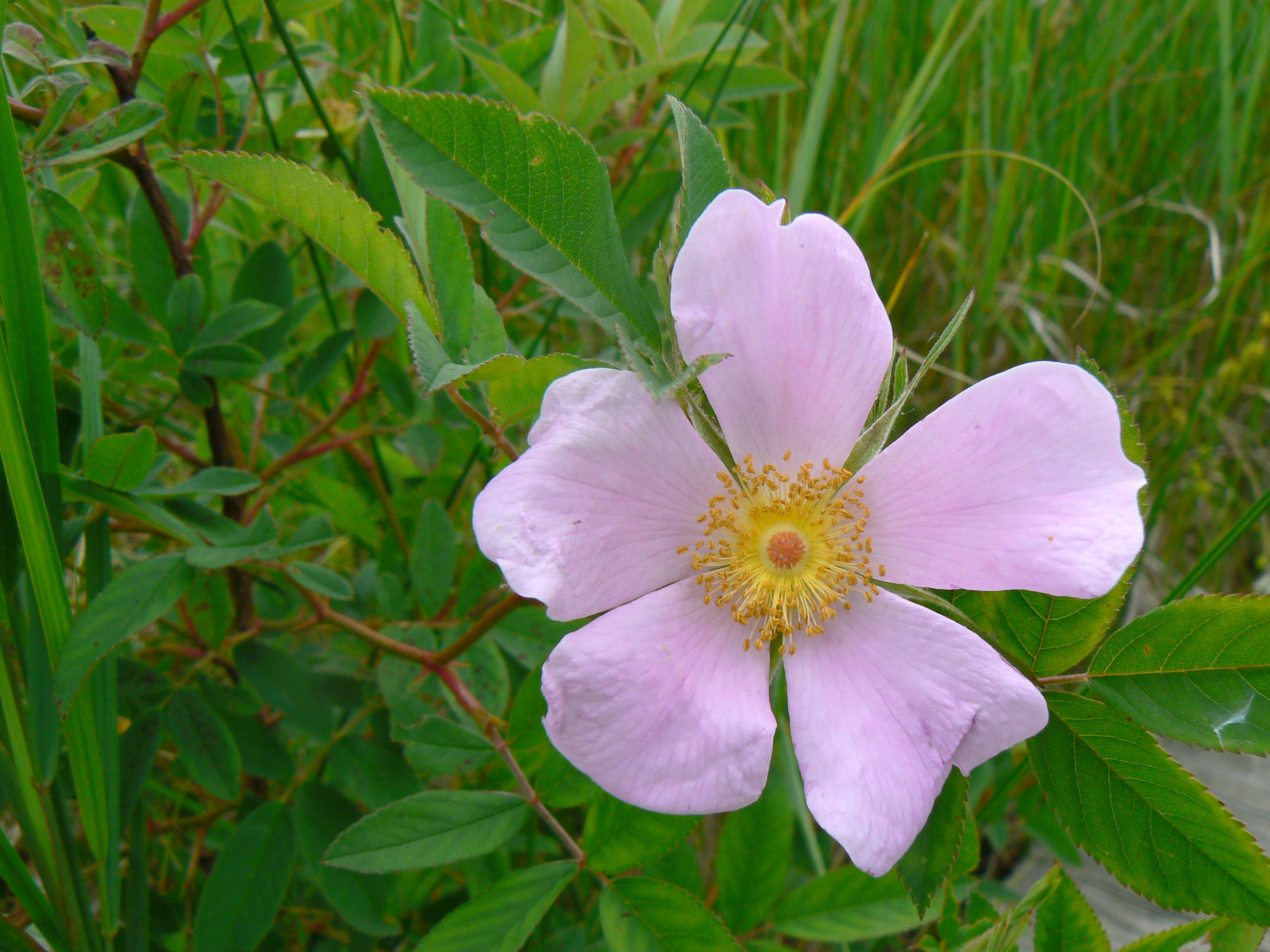 Rosa virginiana in flower, Irwin Prairie State Nature Preserve, Ohio.